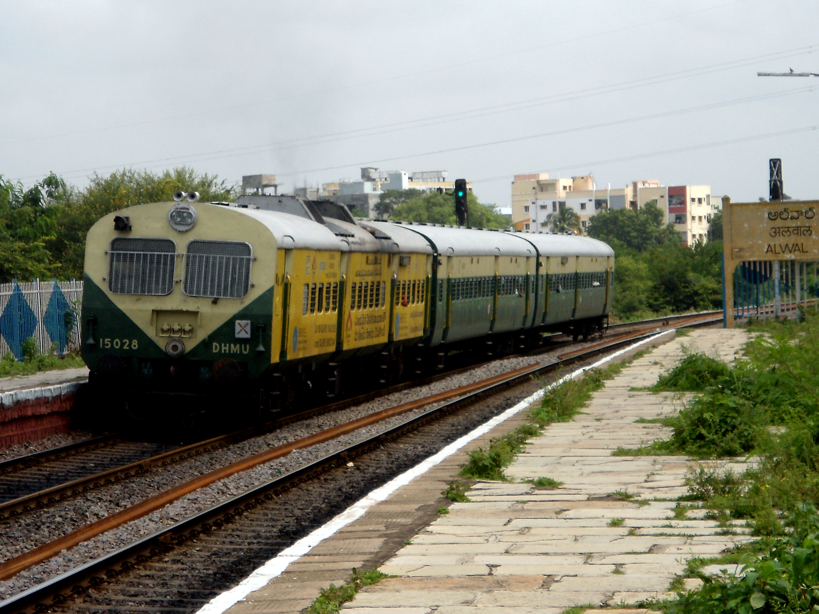 (SC-Medchal) DHMU local at Alwal train station, Hyderabad